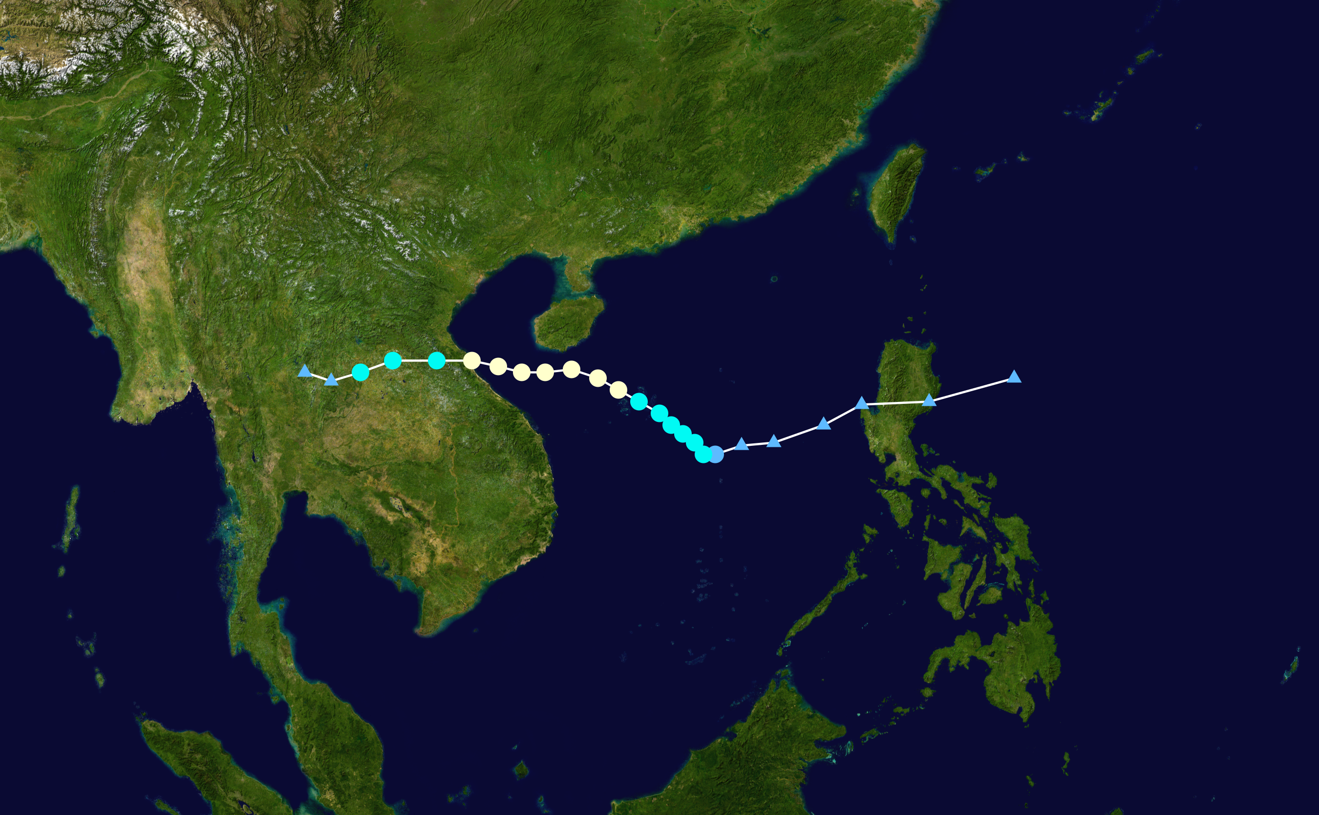 Typhoon Lekima track. Uses the color scheme from the Saffir-Simpson Hurricane Scale.